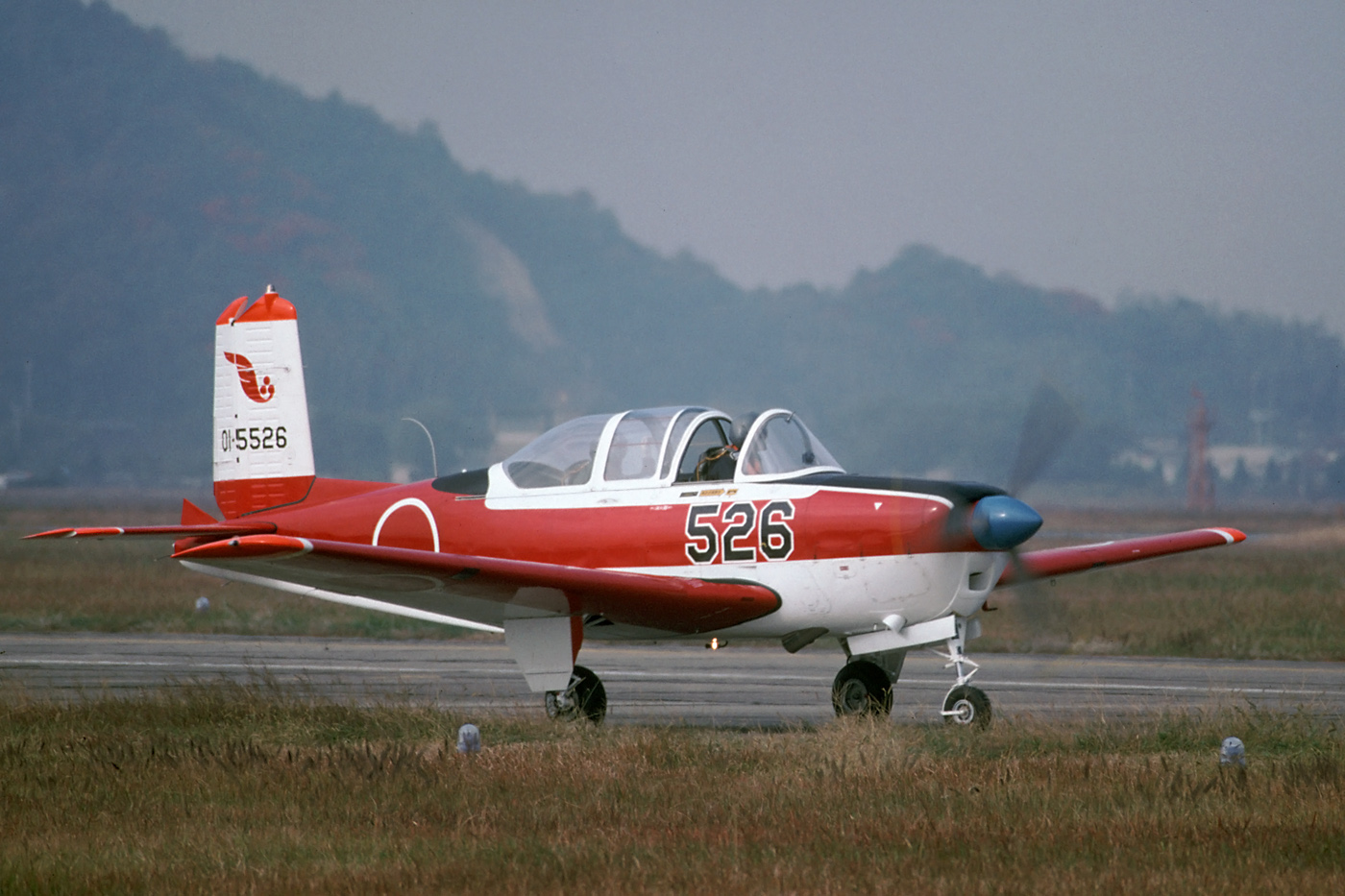 Pilots of the JASDF receive their primary training with 1 and 2 Hikotai at Hofu. In November 1994 the Fuji T-3 was still used. They were replaced from 2002 by the Fuji T-7, a modern version of the T-3.